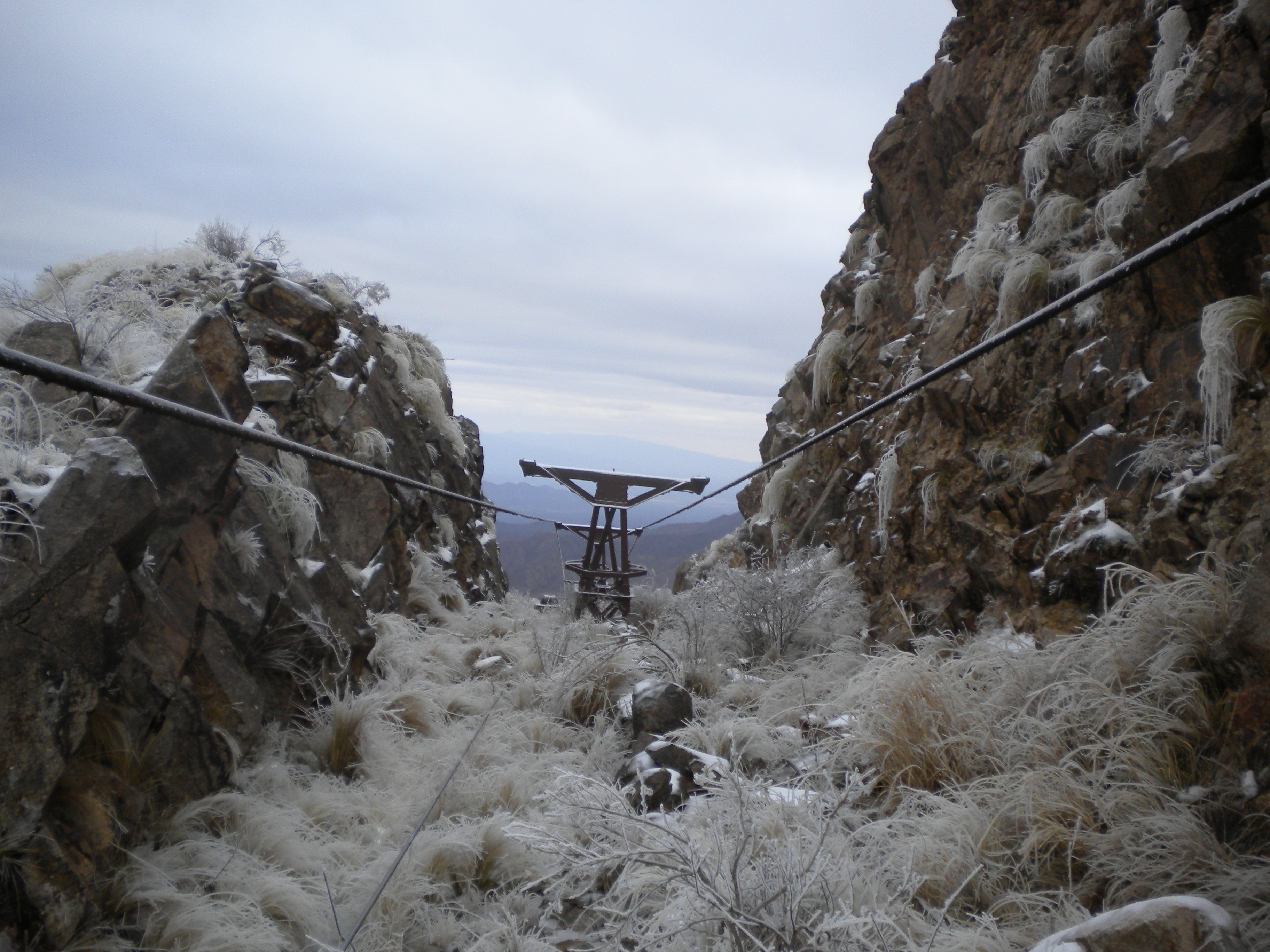 Picture of the cable carril, Chilecito